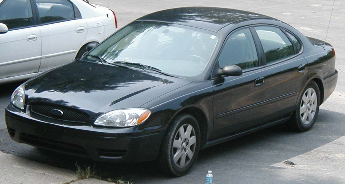 2004-2006 Ford Taurus photographed in USA.